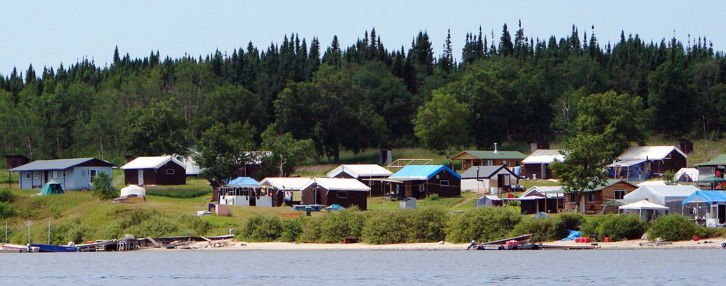 Old Nemaska Cree settlement in Quebec, Canada.